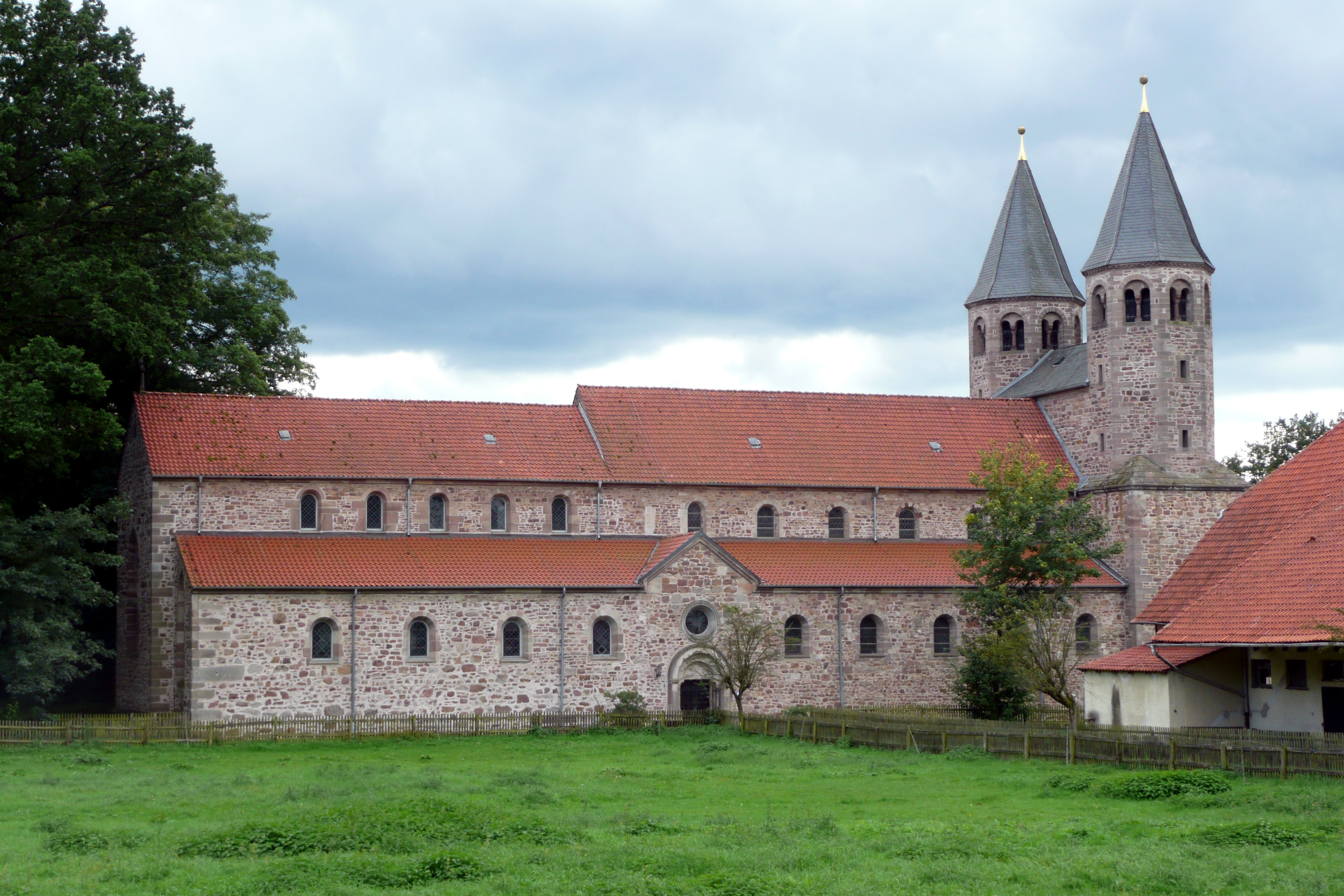 The former abbey of Saint Benedict in Bursfelde in the Weser valley seen from NE.